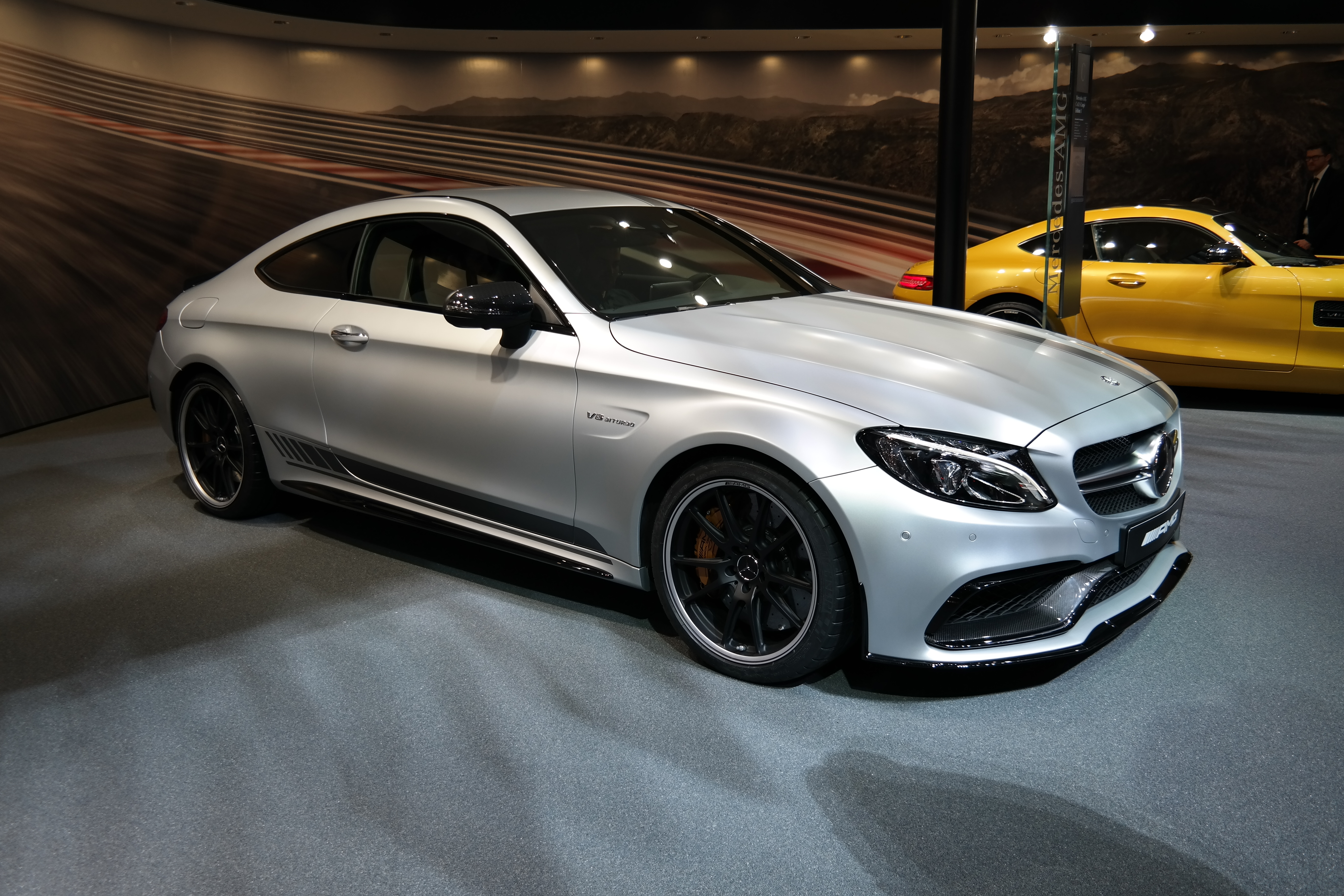 Geneva Motor Show 2016 (photo taken on the first press day)